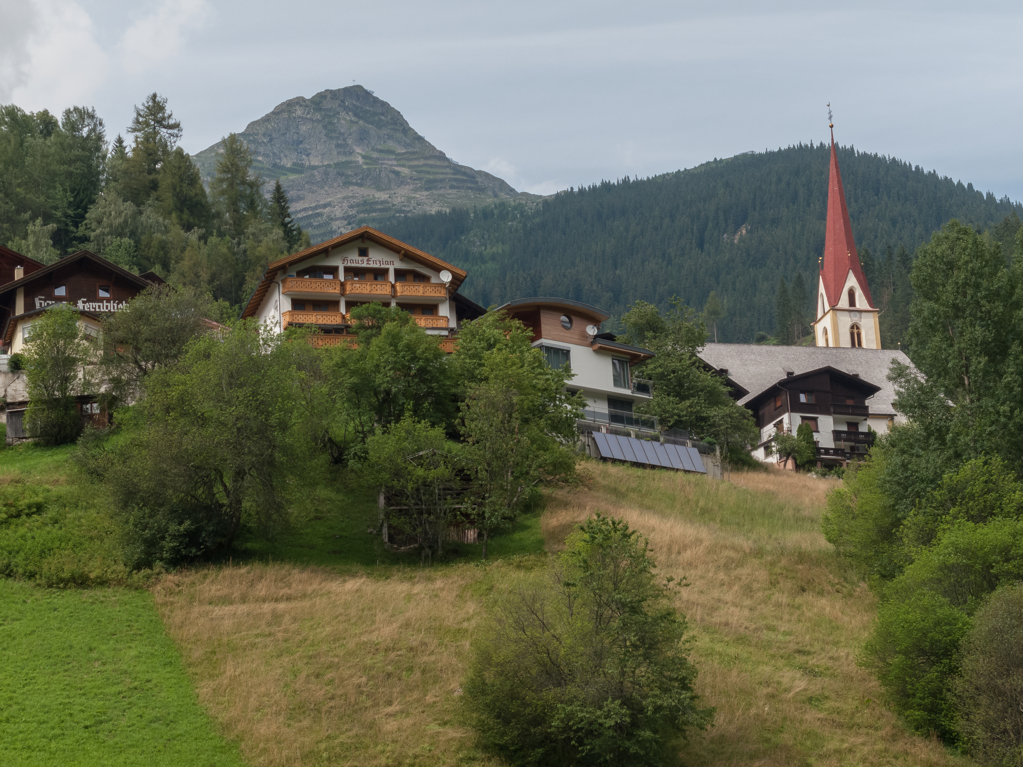 Kappl, church: katholische Pfarrkirche heilige Antonius